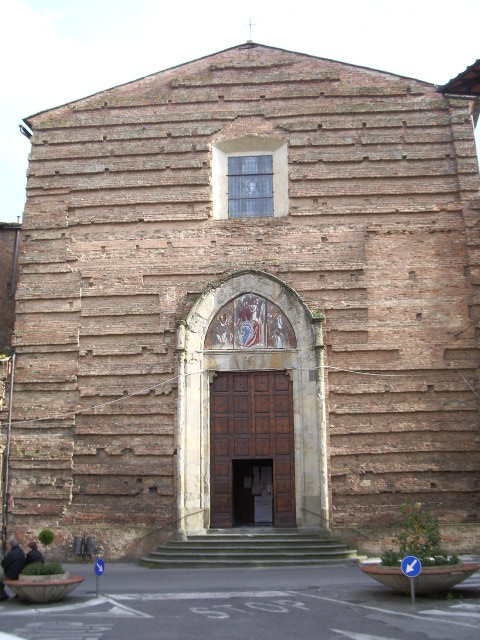 Church of San Domenico in San Miniato